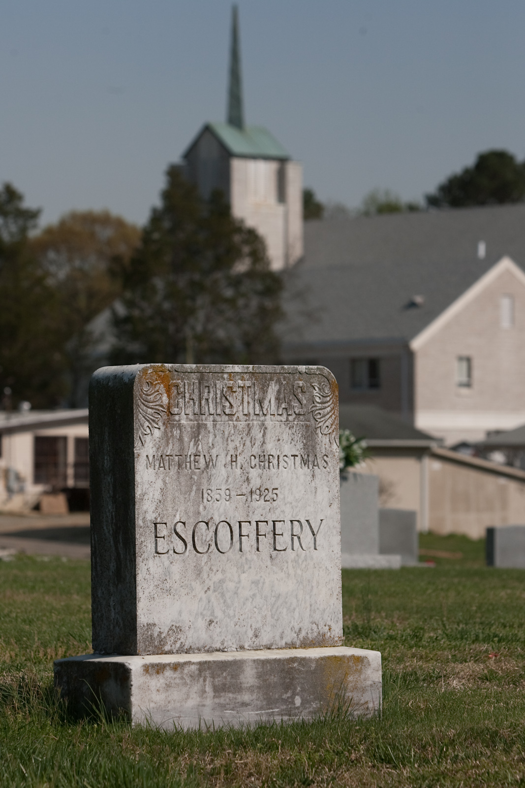 Beechwood Cemetery Plot of Matthew Christmas (d. 1925), with White Rock Baptist Church in background.